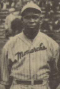 Newt Joseph at the 1924 Colored World Series. LOC states here that there are no restrictions on use of this image, therefore it is PD.